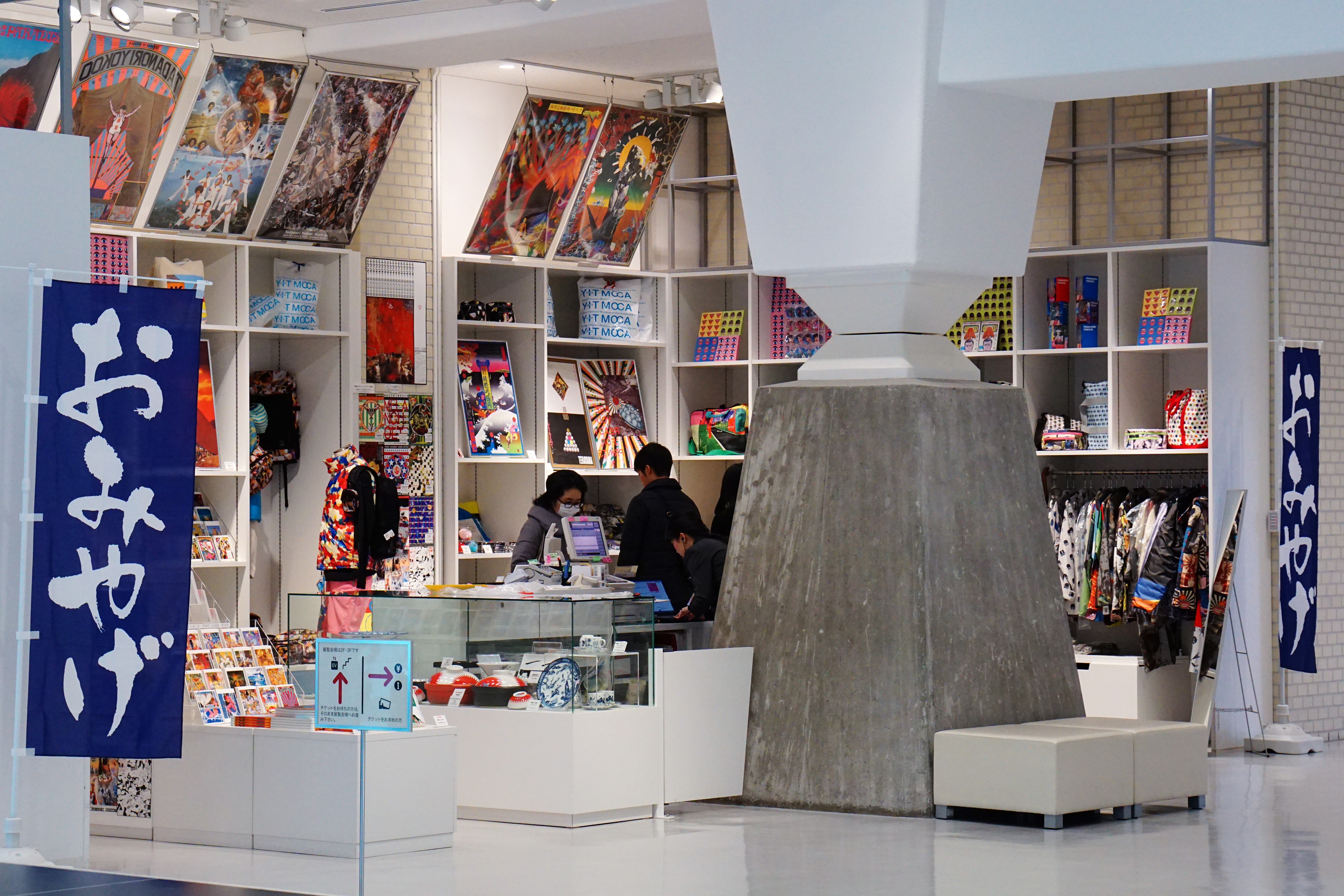 Yokoo Tadanori Museum of Contemporary Art in Kobe, Hyogo prefecture, Japan